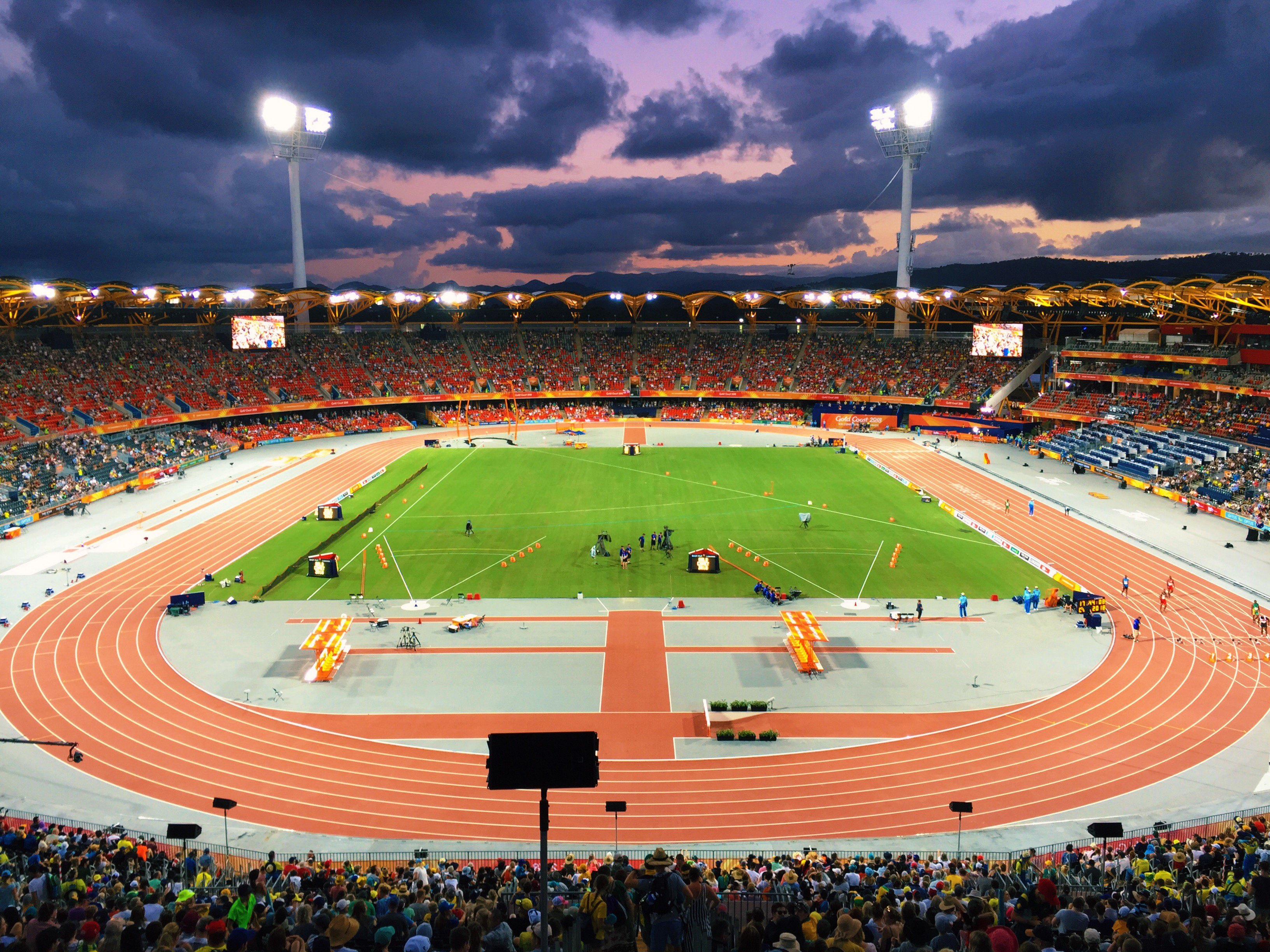 Photo taken at Carrara Stadium, at the Gold Coast 2018 Commonwealth Games. Processed with VSCO with l6 preset.